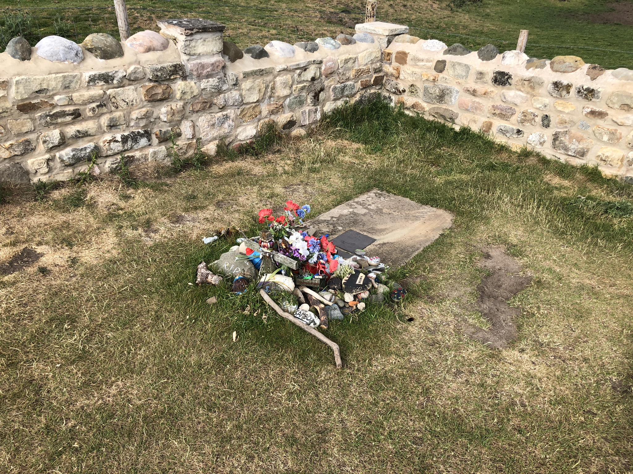 The grave of a slave boy who died at Sunderland Point near Lancaster in the late 18th century